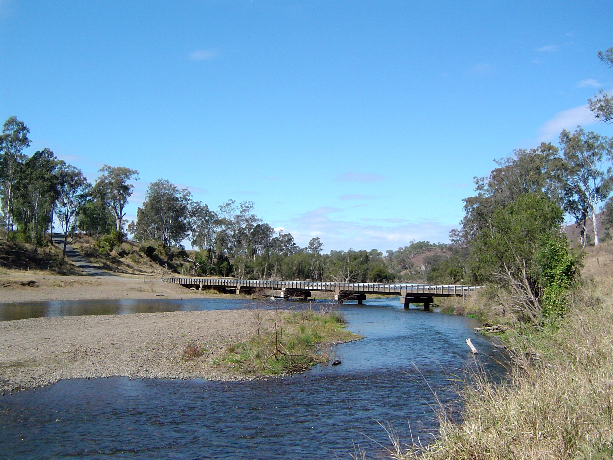 Photo of Savages Crossing at Fernvale, Somerset Region, Queensland, Australia.